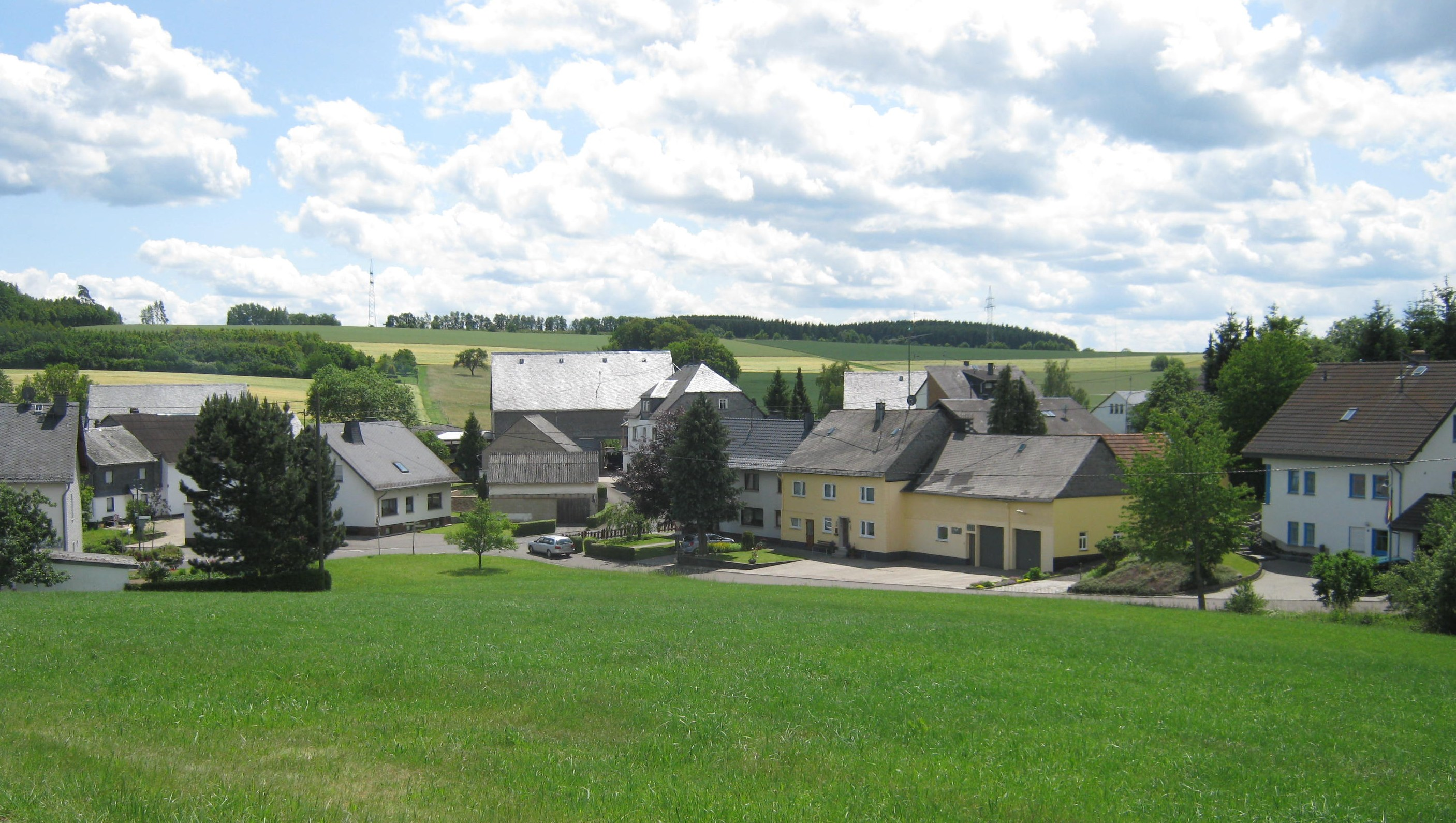 Nickweiler/Hunsrück